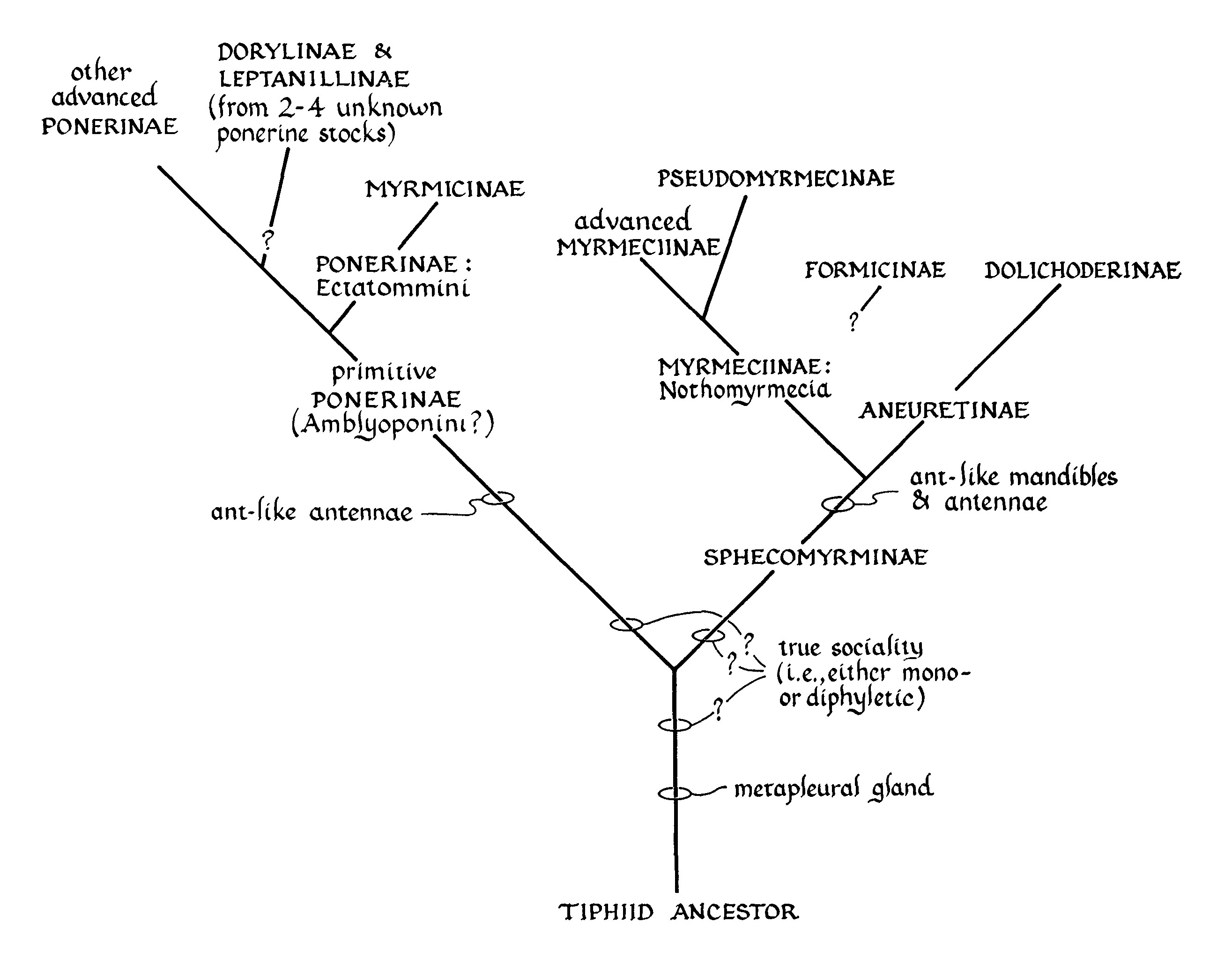 Hypothetical cladogram of the subfamilies of ants (Formicidae), based on all available evidence including the analysis of Sphecomyrma.